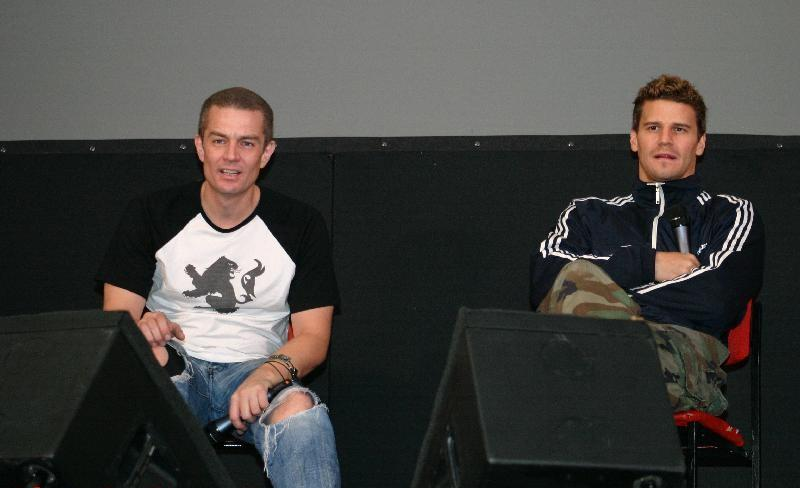 American actors James Marsters and David Boreanaz at a London Q&A.